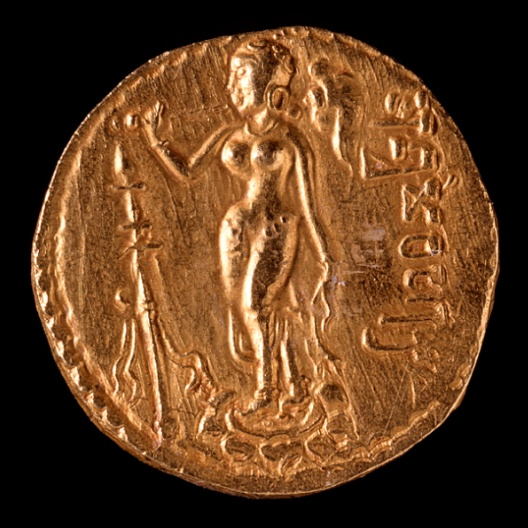 India, circa 335-376 Tools and Equipment; coins Gold Purchased with funds provided by Dr. and Mrs. A. J. Montanari (M.84.110.1) South and Southeast Asian Art